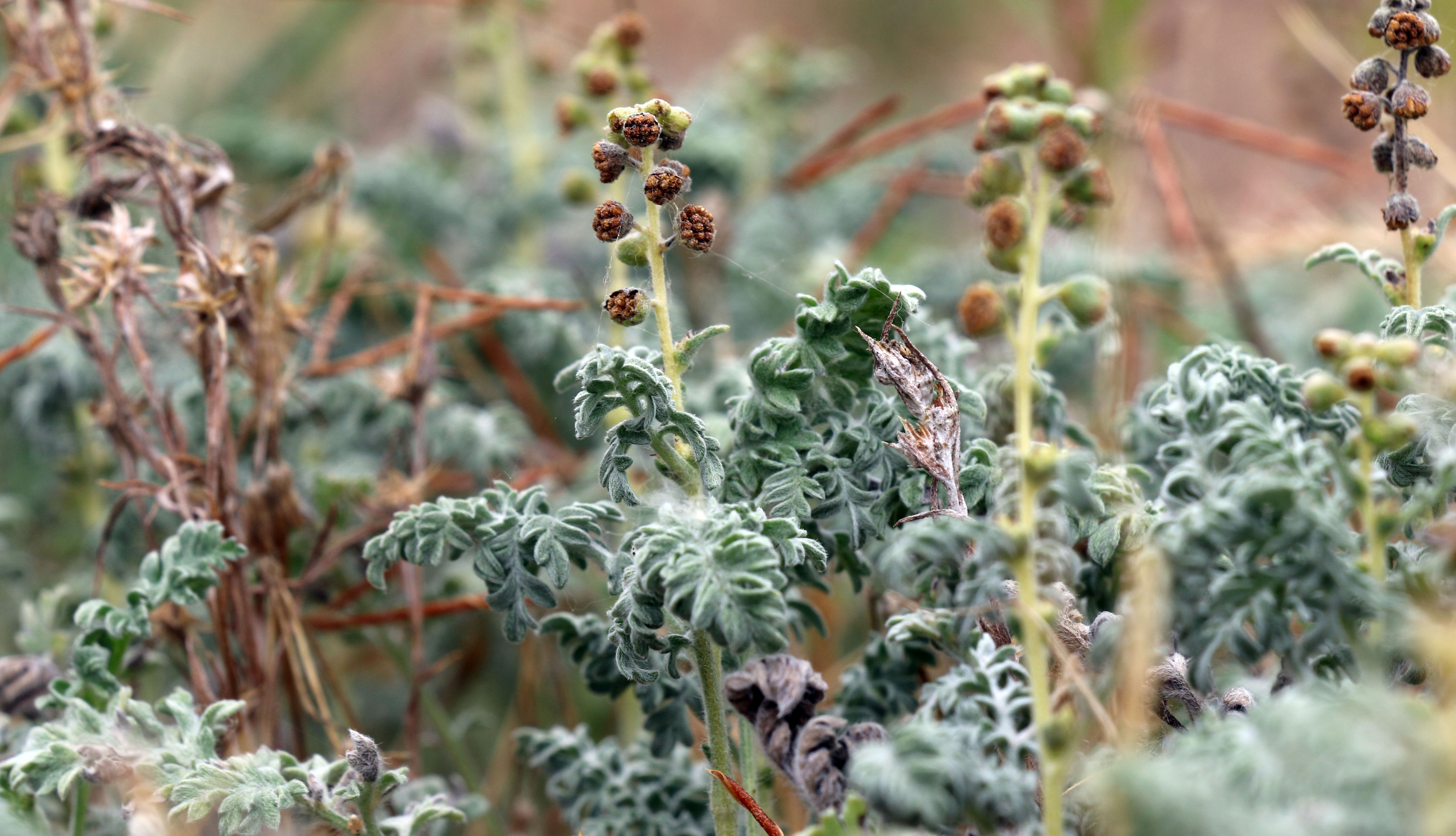 San Diego ambrosia (Ambrosia pumila) is a perennial herb that primarily inhabits grasslands and drainages in a small segment of San Diego County. It is listed as endangered under the Endangered Species Act. Photo by Joanna Gilkeson/USFWS.